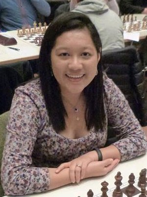 Sue Maroroa at the Icelandic League in Reykjavik 2013